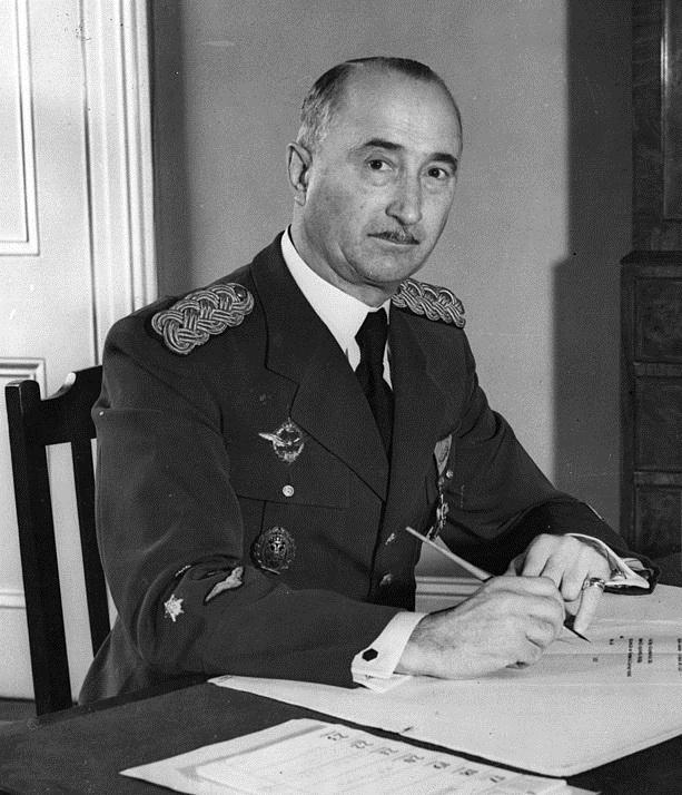 Armijski general Dusan Simovic